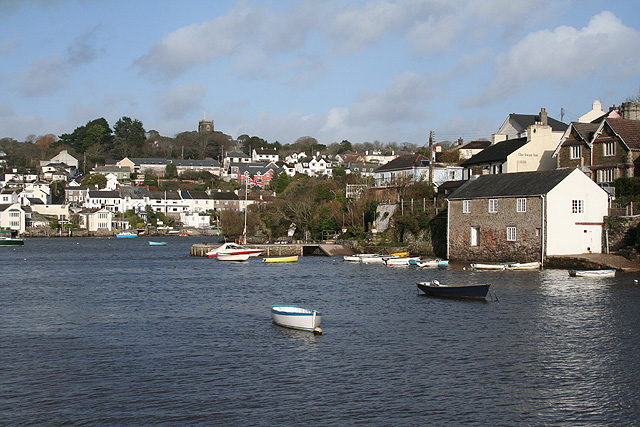 Newton and Noss: Noss Creek The Swan Inn, visible on the right. Newton Ferrers across the water. Two hours before high tide. Seen from the terrace of the Ship Inn